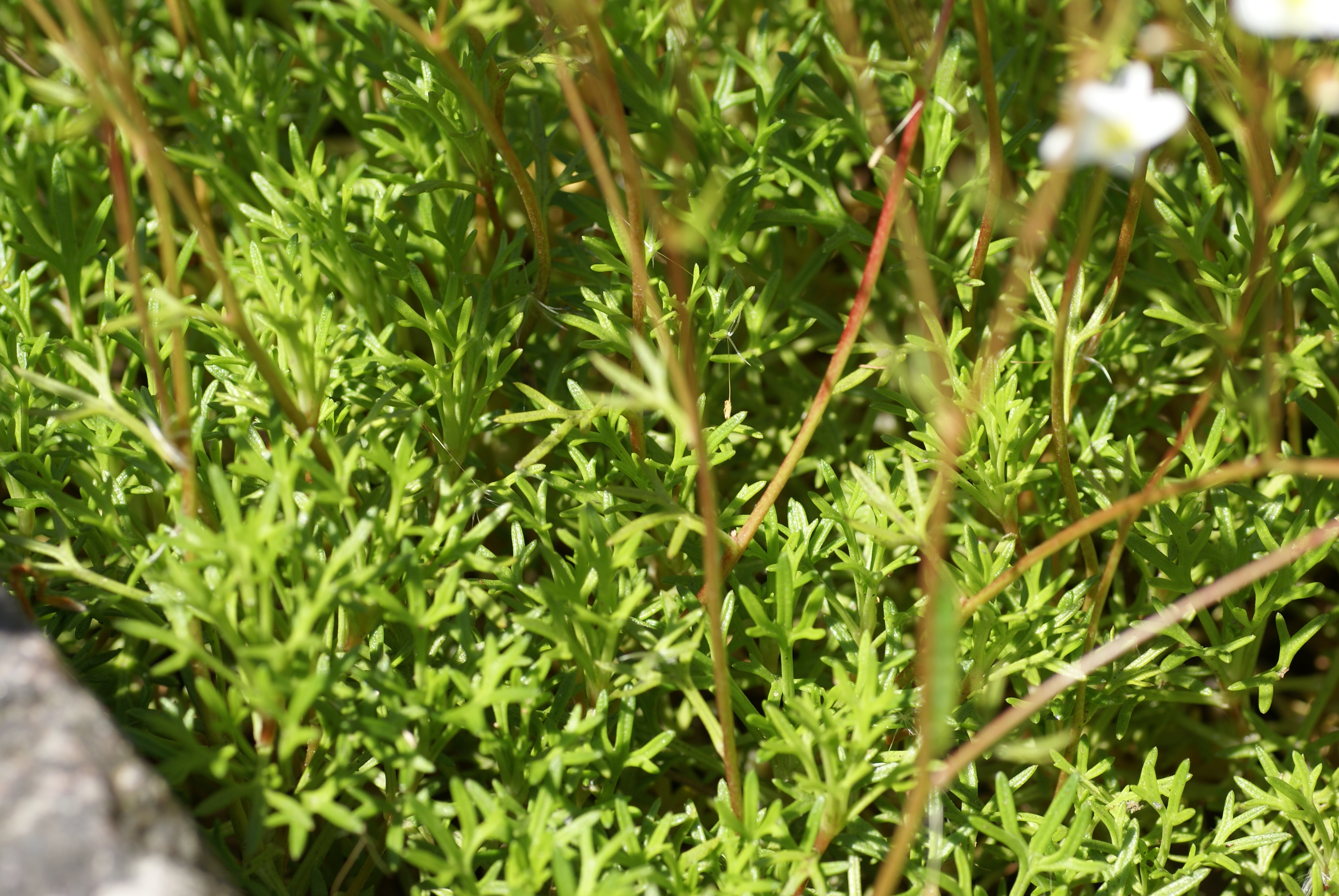 Plant species Saxifraga fragilis in Bergianska trädgården in Stockholm, Sweden